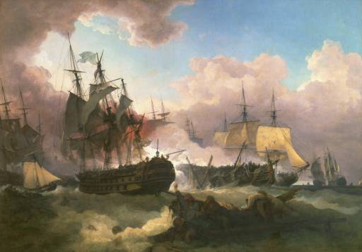 Battle of Camperdown